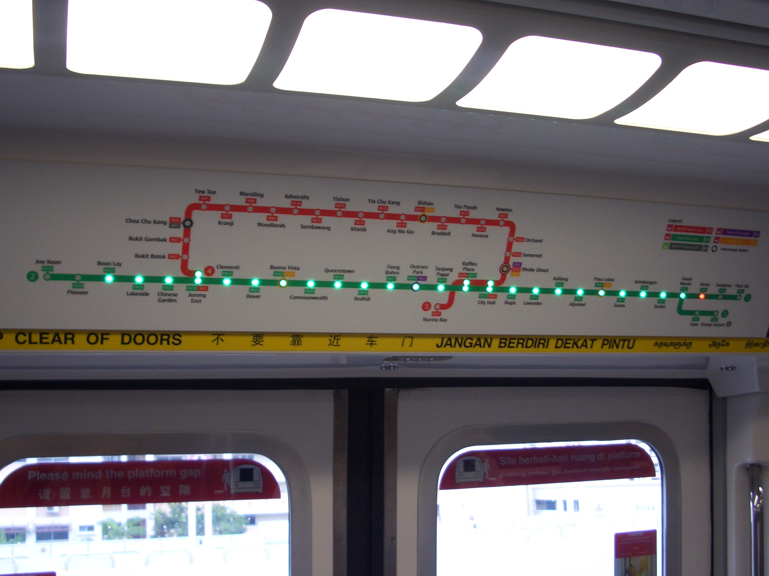 STARIS light flashing route map On Train 053/054.